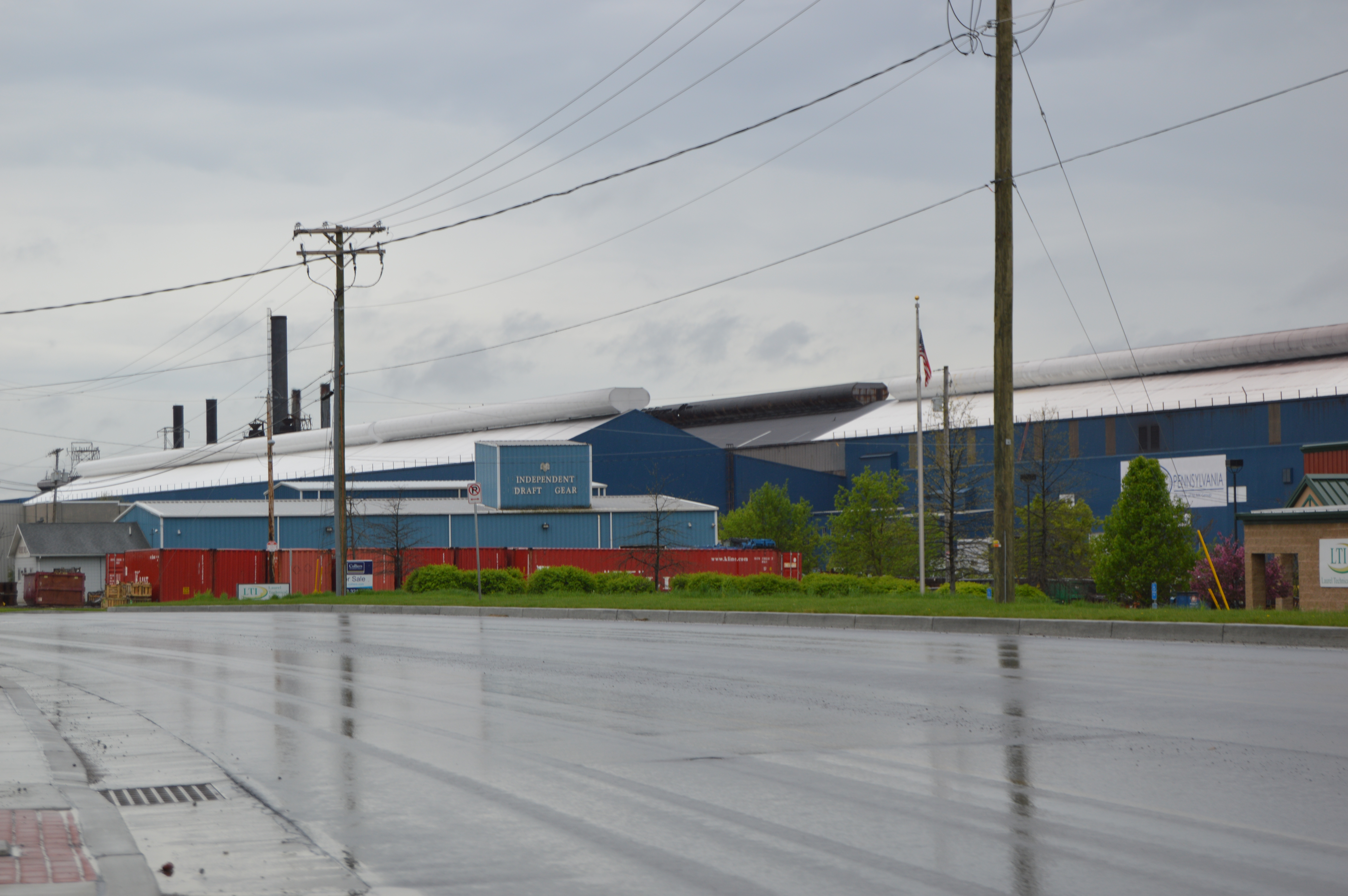 An industrial complex in Farrell, Pennsylvania, United States, seen looking south from Pennsylvania Routes 718/760 north of the Staunton Street intersection.